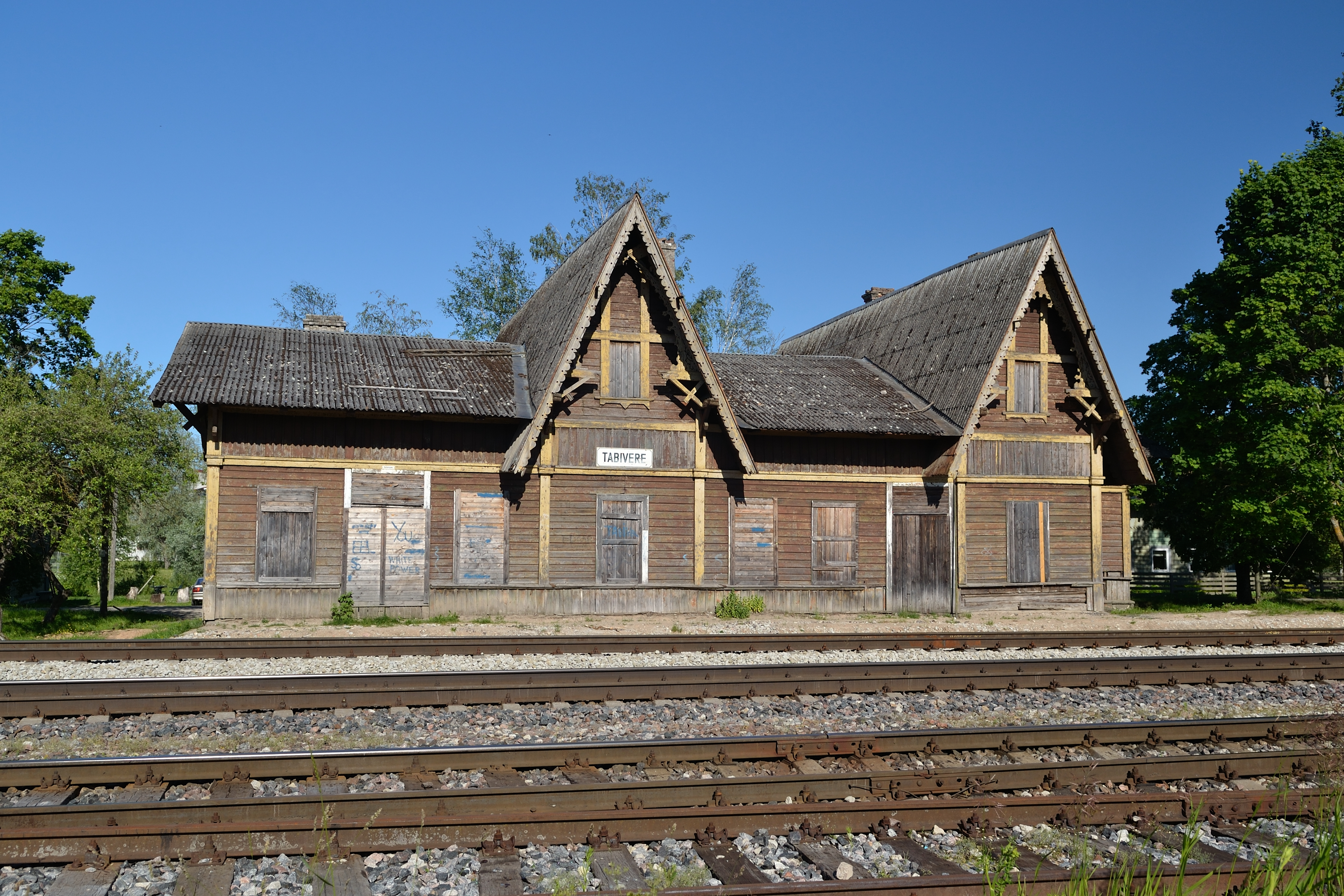 Tabivere station building